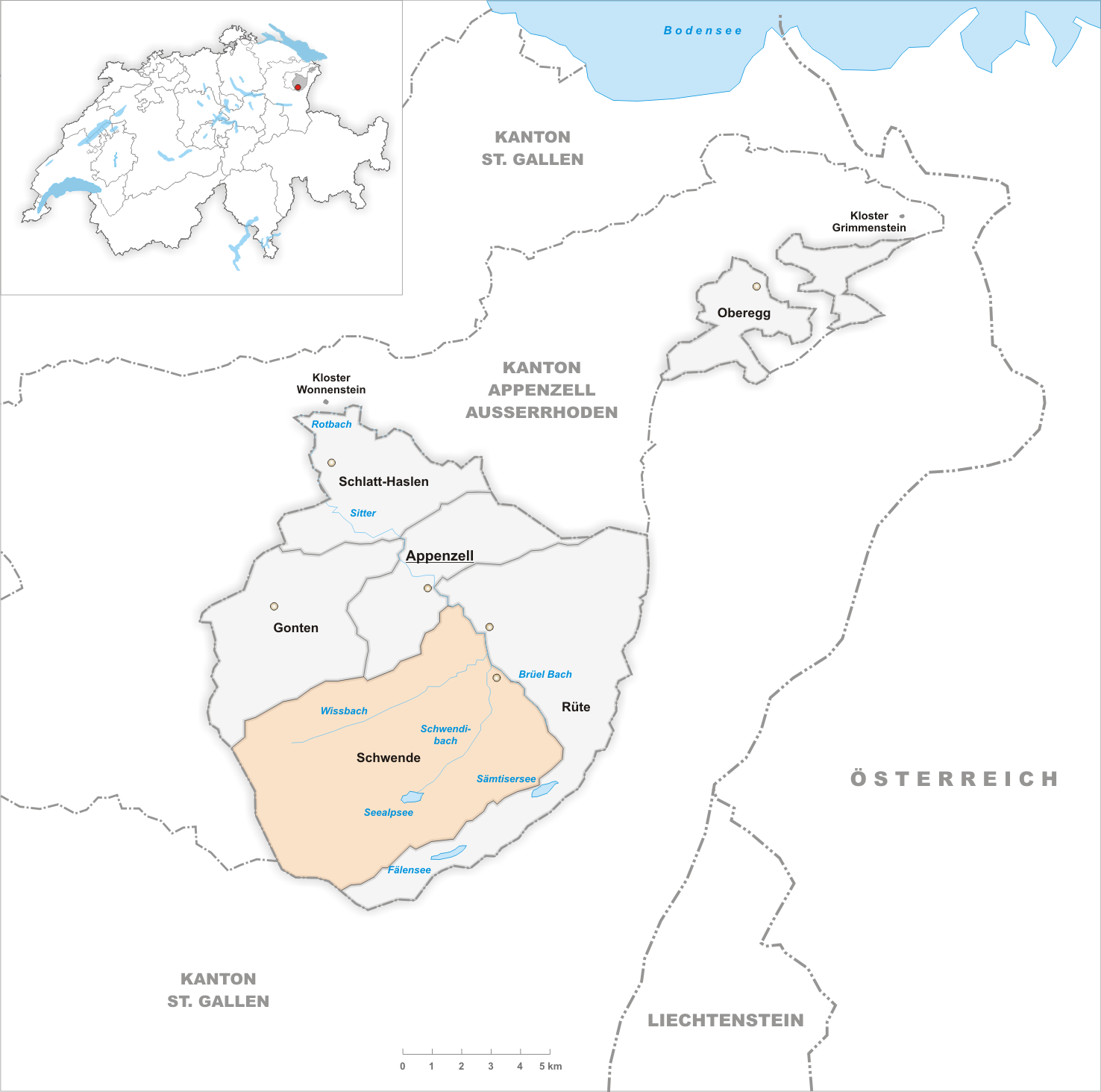 Municipality of Schwende